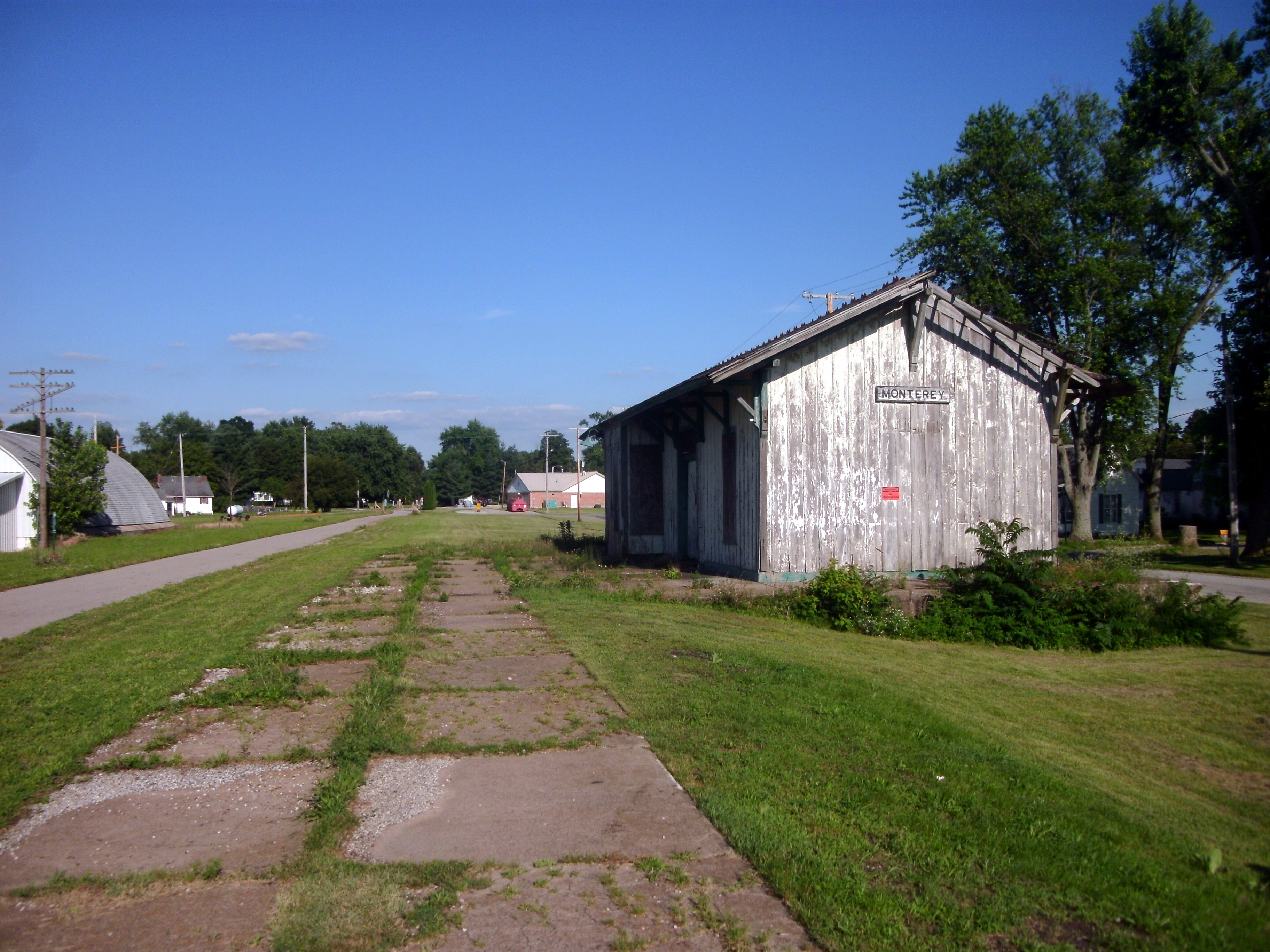 The Monterey station on the former Erie Railroad main line in Monterey, Indiana.